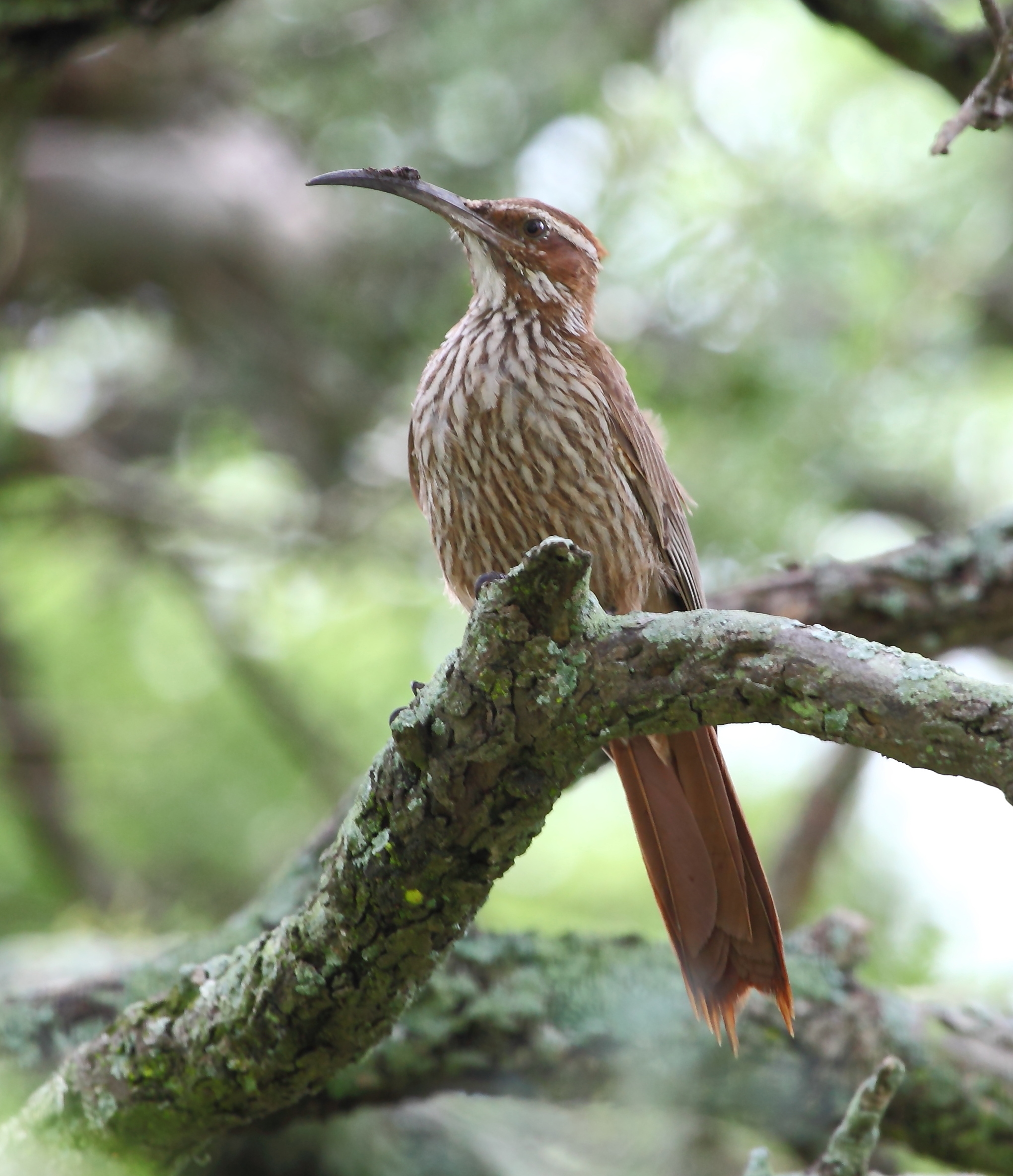 Scimitar-billed Woodcreeper at Capivara - Santa Fe - Argentina